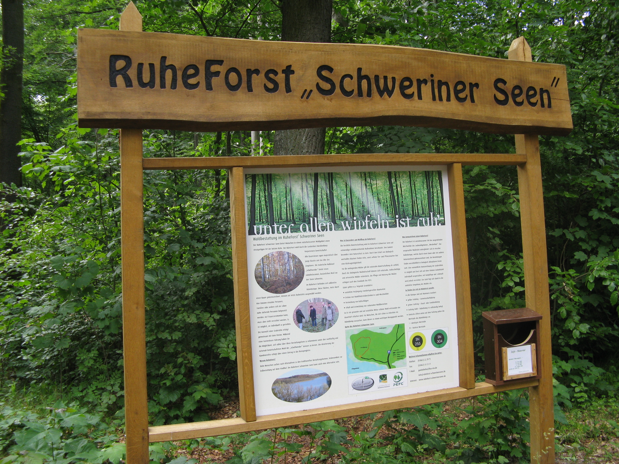 Info sign of forest burial at Schelfwerder in Schwerin, Mecklenburg-Vorpommern, Germany